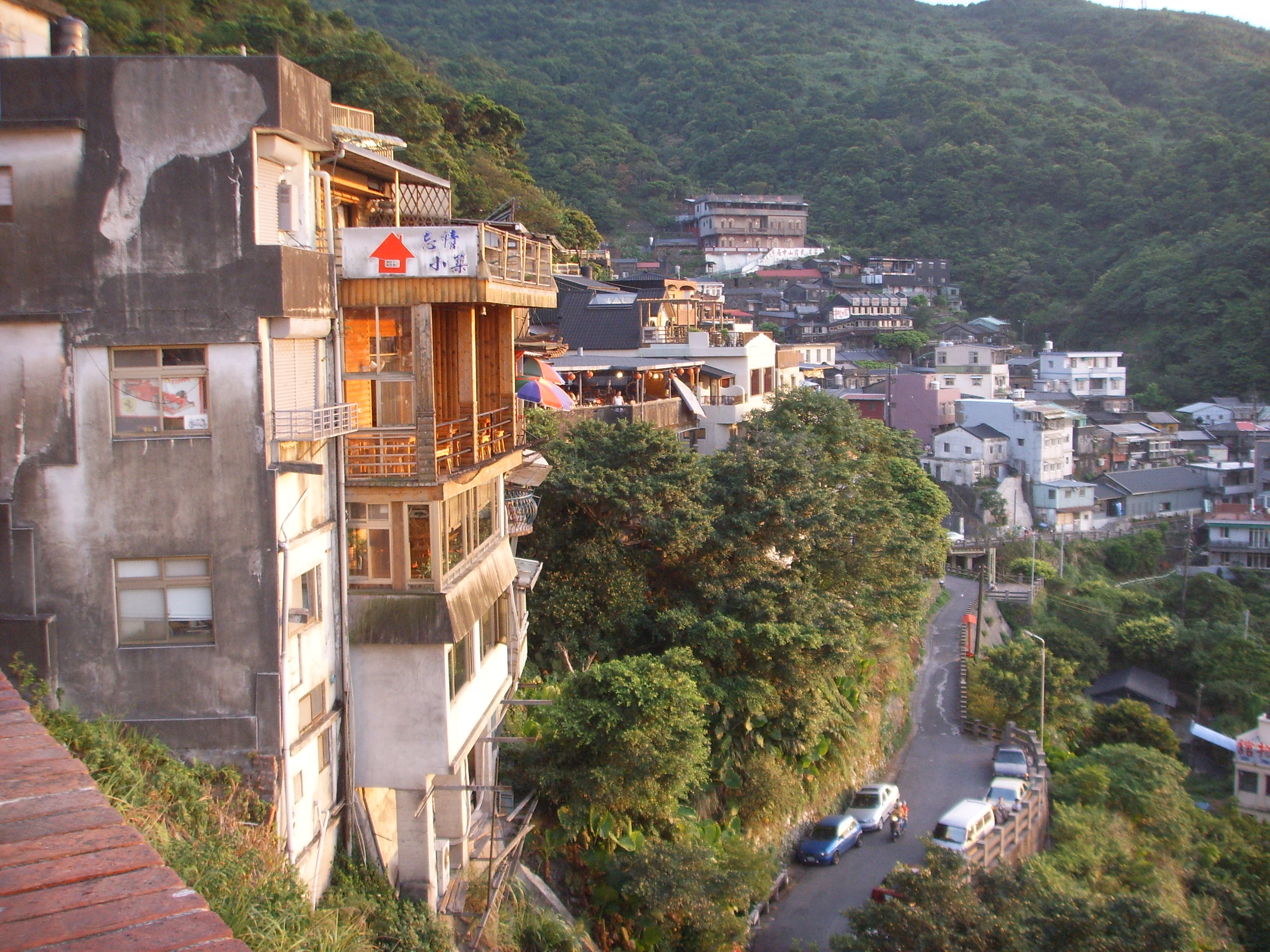 Jioufen